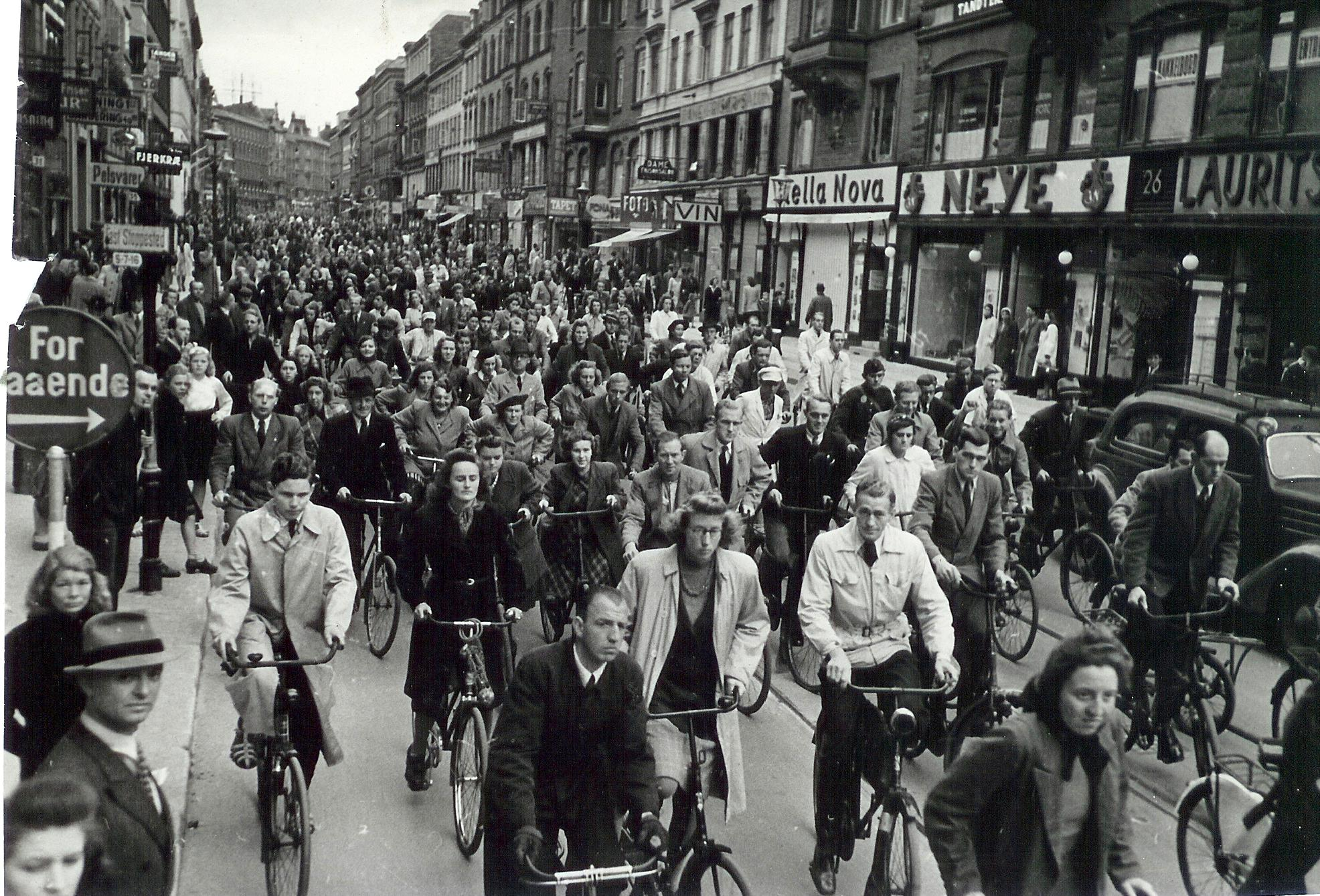 More images from The Museum of Danish Resistance